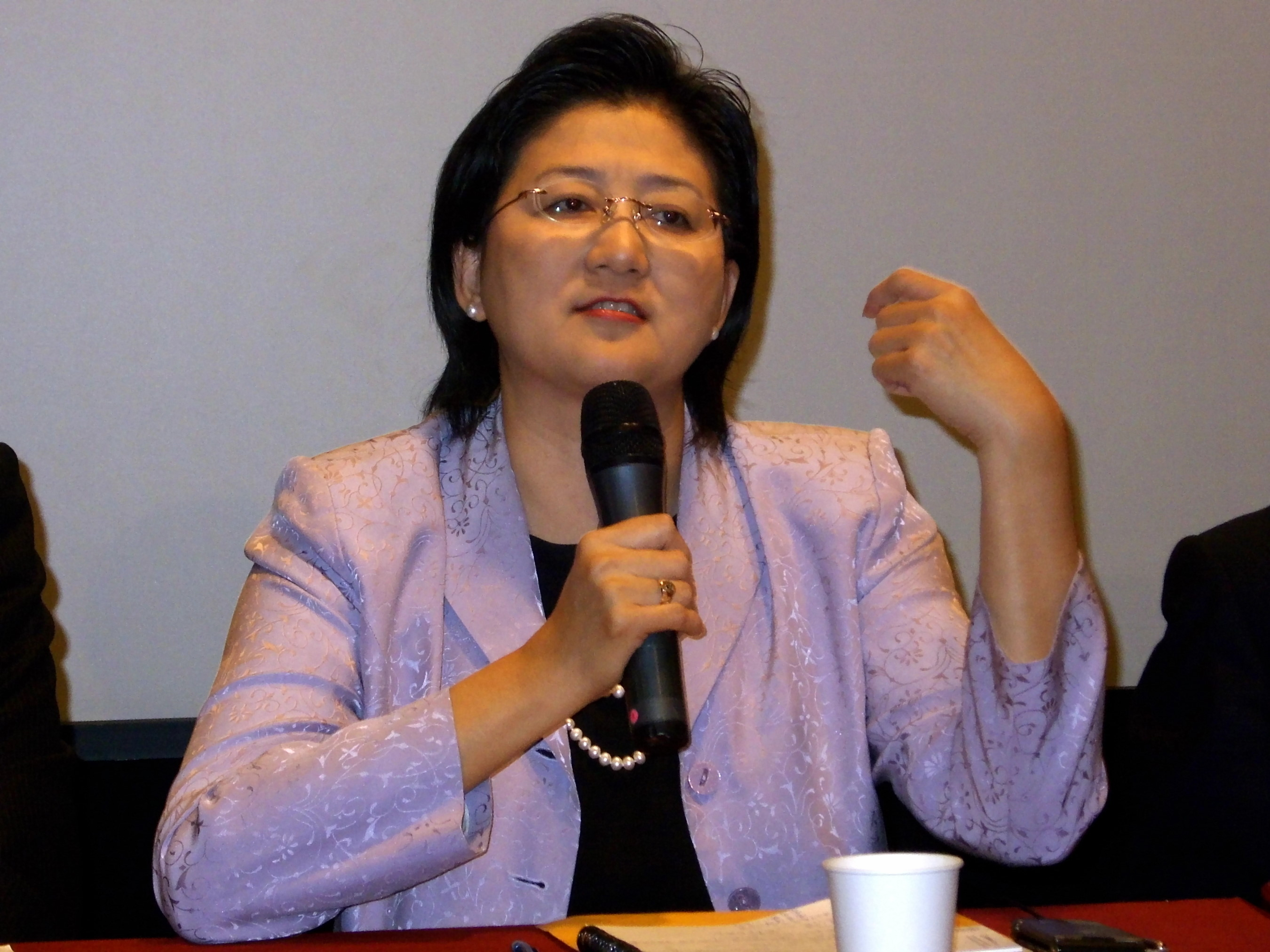 Joanna Lei (KMT Legislator) at "Why Democracy?" Movie Launch Seminar.中國國民黨立法委員雷倩出席公共電視文化事業基金會《為什麼要民主？》首映座談會